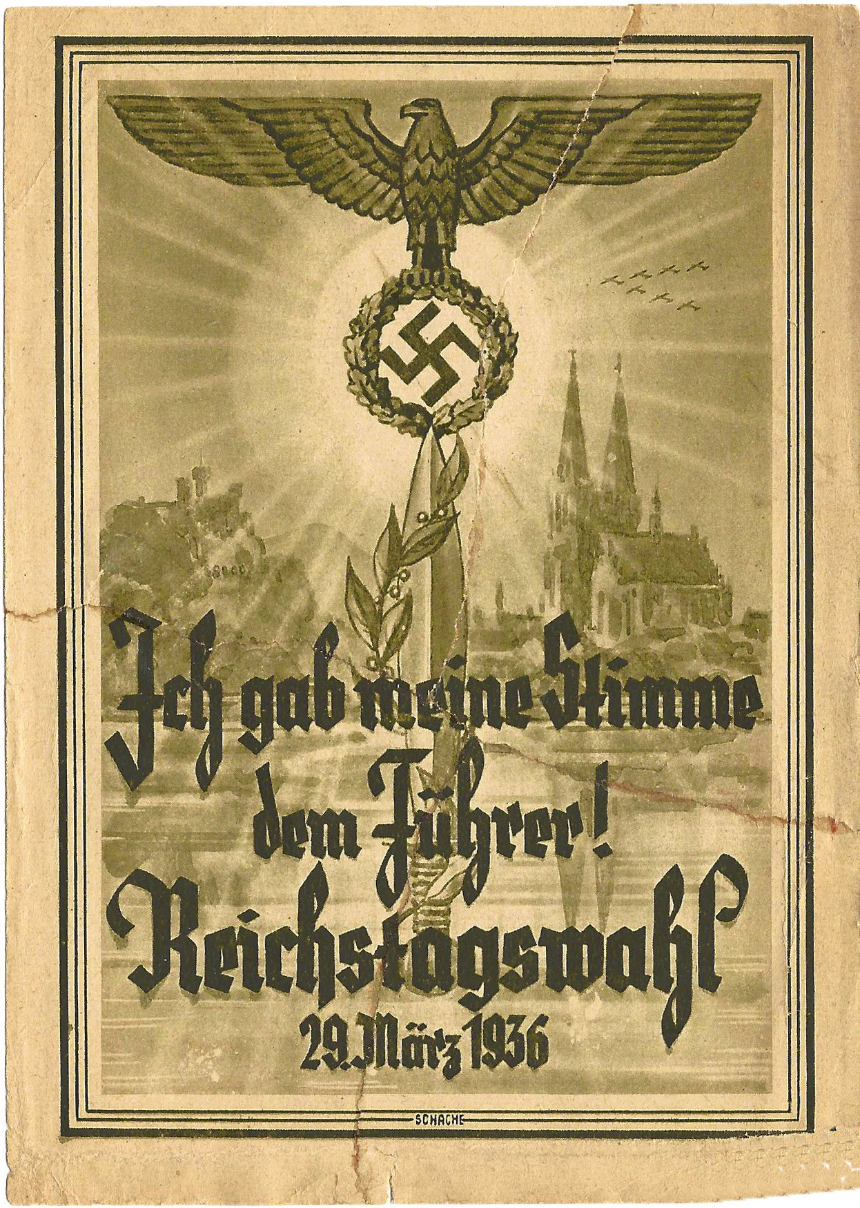 My Mother [a very a-political woman] saved this small hand-out from the NSDAP, which fit easily in a copy of "Mein Kampf". Also, a small 'Nazi' flag was given. I have the Book to this day.